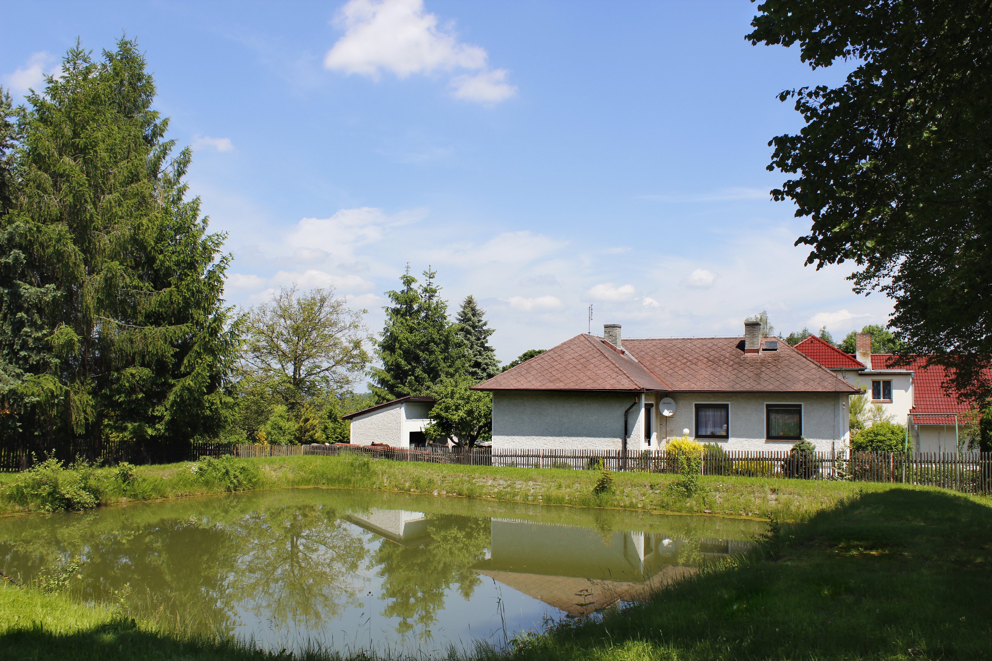 Small pond in Chaloupky village, Czech Republic